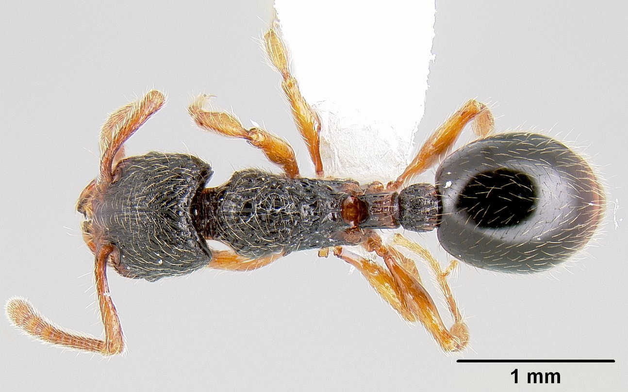 Dorsal view of ant Myrmecina graminicola specimen casent0106054.